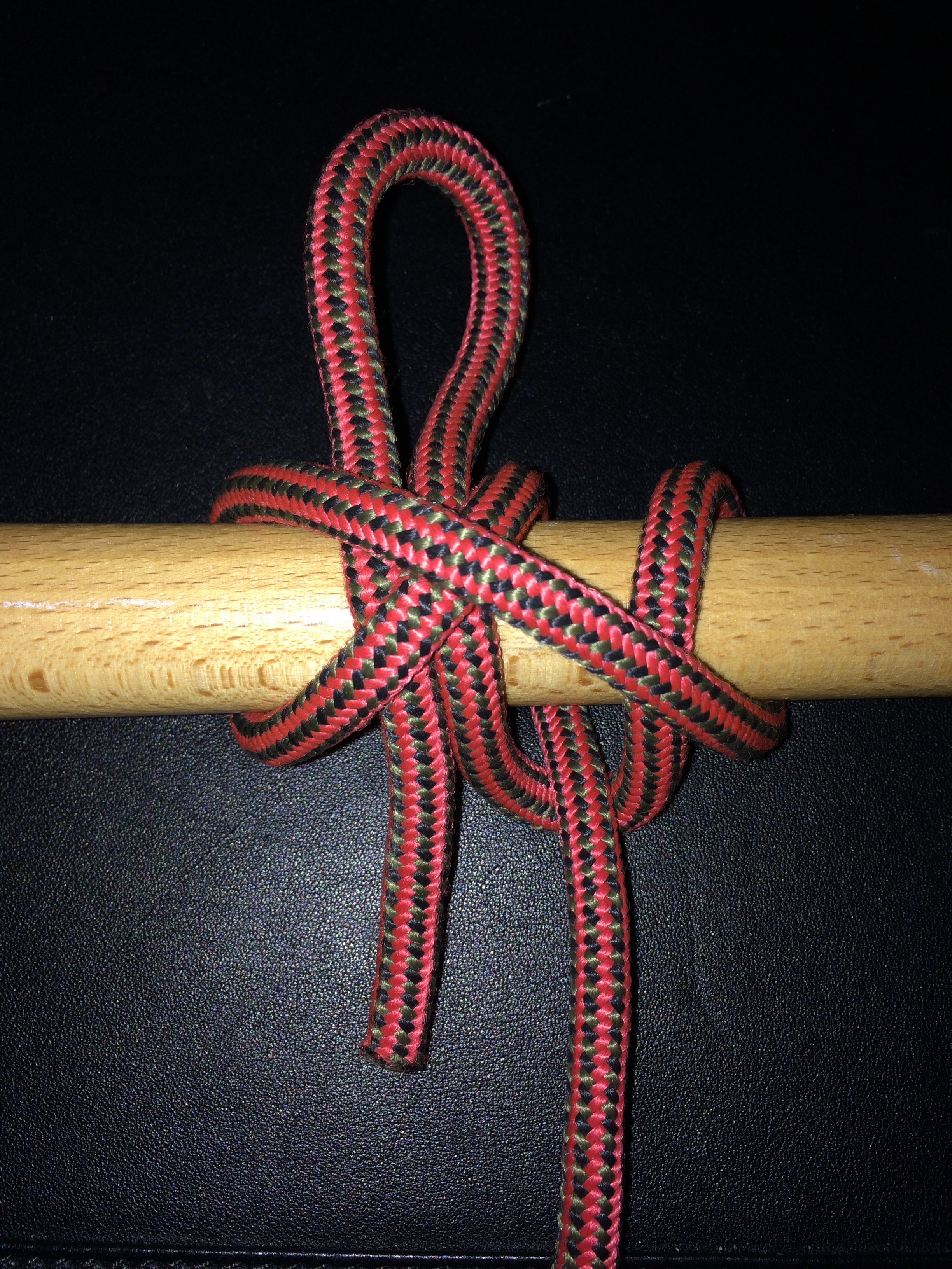 Swing hitch: Clove hitch, the end continue wrapping around, then wraps around the main part, and goes under its previous cross i.e. itself and he clove hitch bridge.